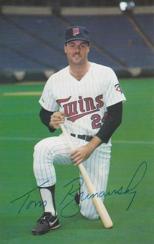 Professional baseball player Tom Brunansky